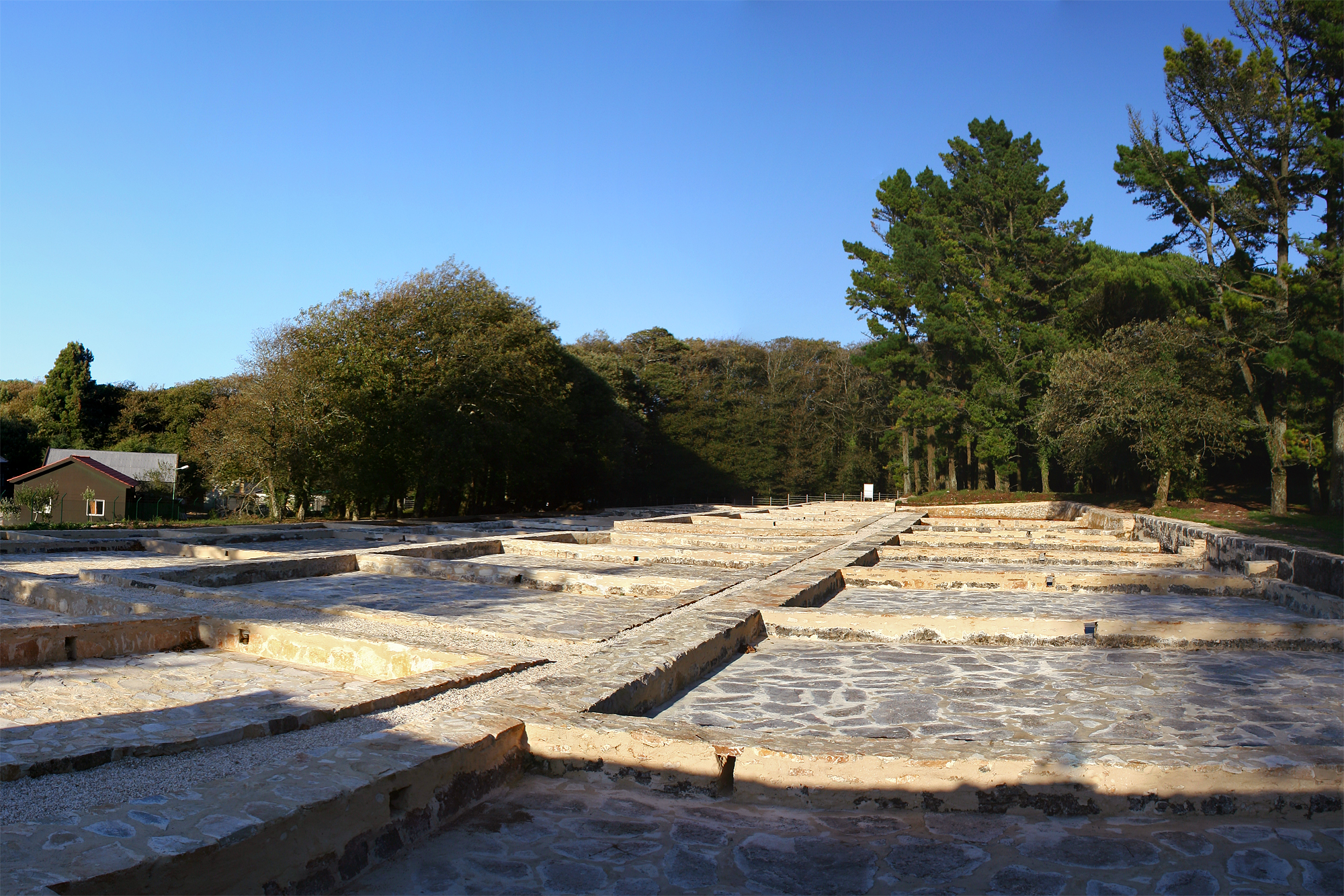 Royal Ice Factory, 18th Century - Serra de Montejunto, Cadaval, Portugal